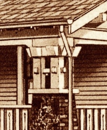 An image from the Sears Modern Homes catalog of the column detail on the Vallonia model.